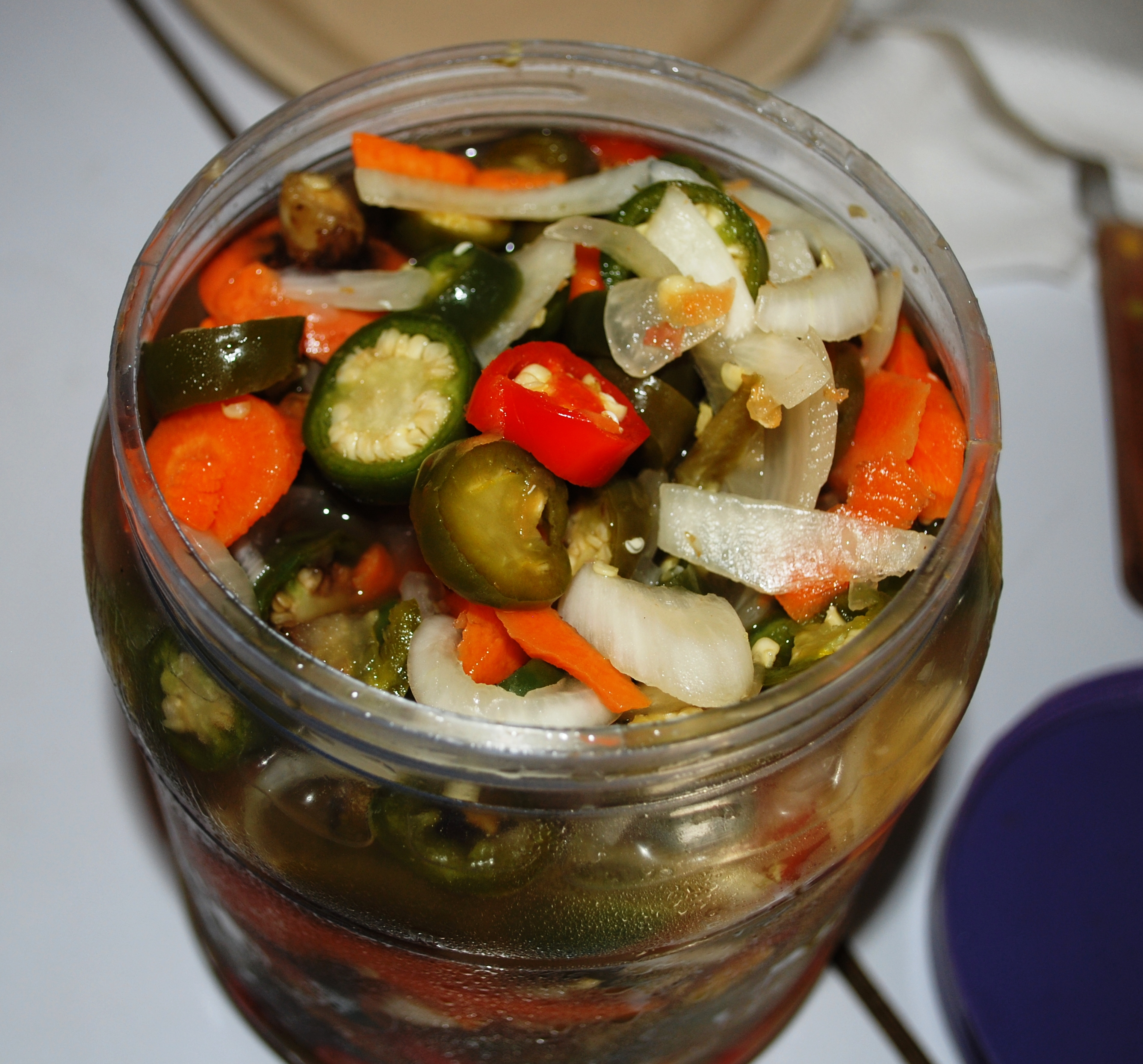 A chili peppers, onions and carrots pickled relish called encortido used in Honduras